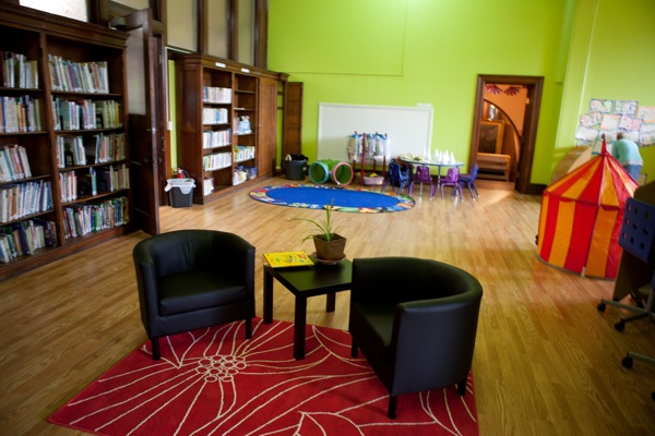 Childrens Library, created 2011-12 from part of former stacks area